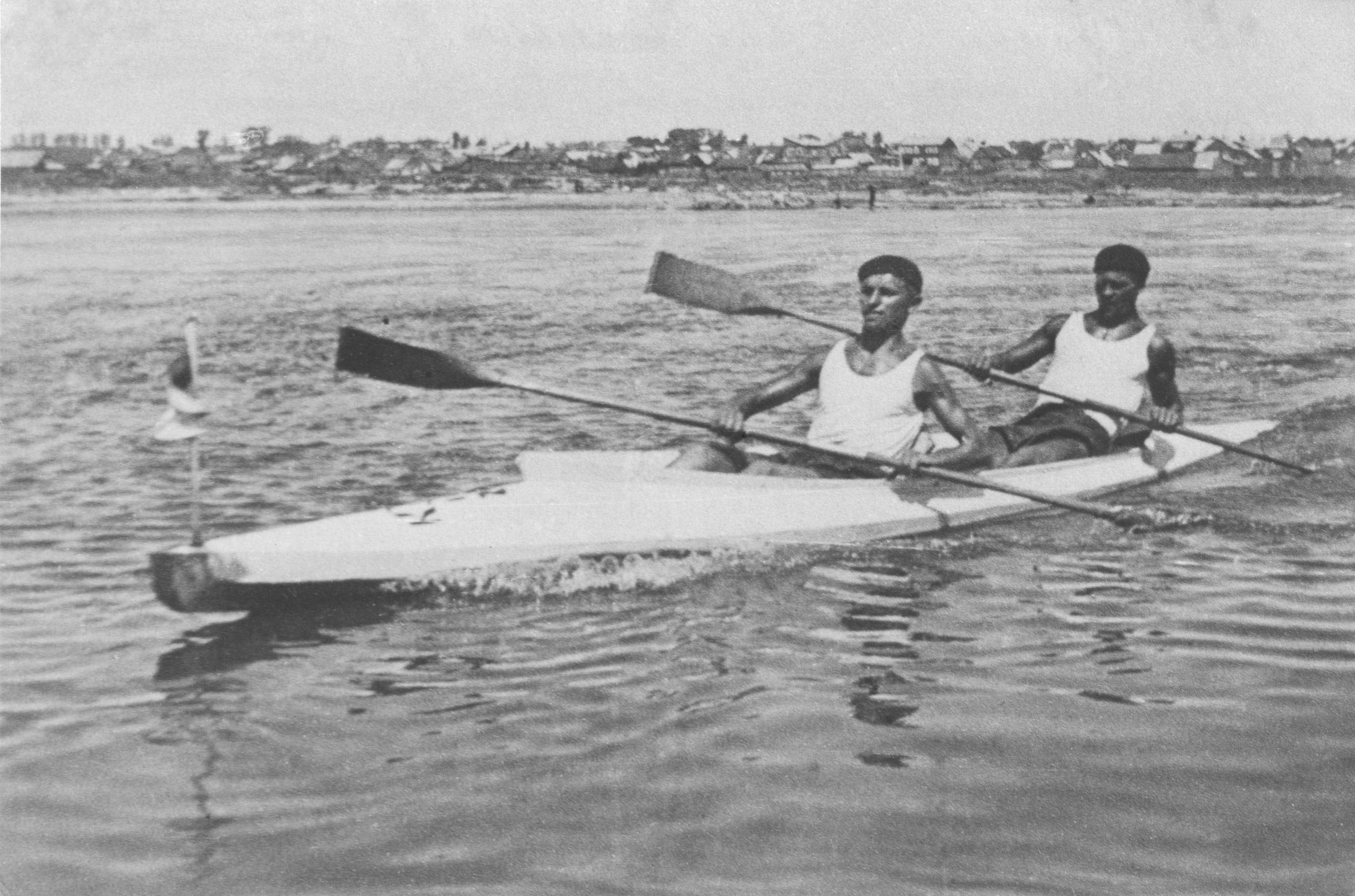 Winners of the First Lithuanian 500 km kayaks race through lakes and rivers (starting on 18th of June 1936 in the lake Dūriai, Molėtai region) finishing on river Neris in Kaunas on 28th of June 1936. Winning KJK (Kaunas Yacht Club) kayak team: Vladas Muchinas (the first from the left) and Petras Jankevičius-Jankus.